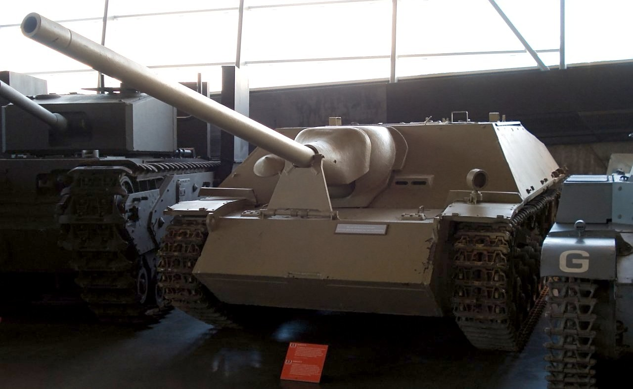 German tank destroyer Jagdpanzer IV/70 (V) displayed at the Canadian War Museum in Ottawa, Ontario. Source: Photo by me, User:Balcer. Date=July 31, 2007